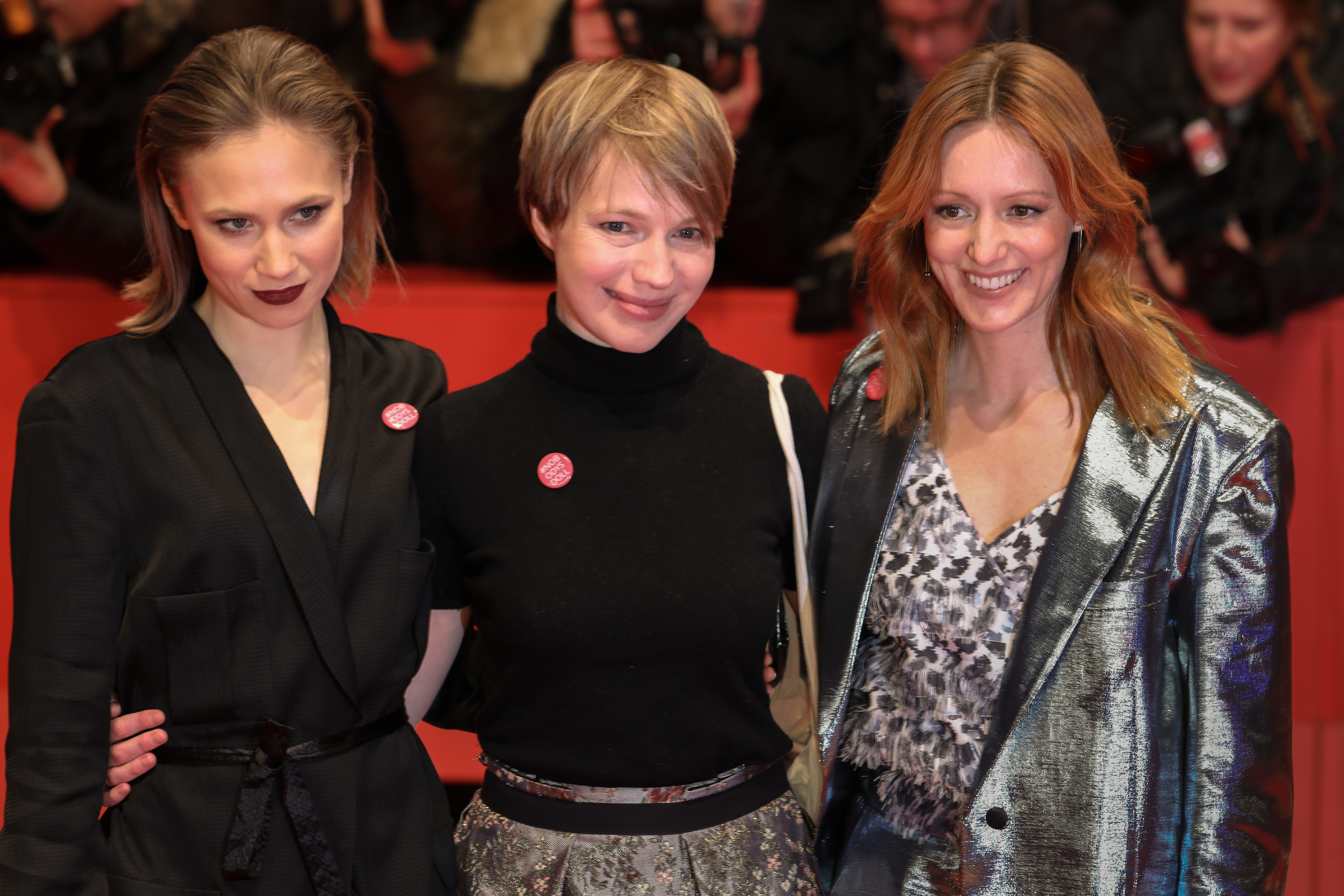 Alina Levshin, Anna Brüggemann and Lavinia Wilson (supporters of the Nobody's doll campaigne) at the opening ceremenony of the Berlinale 2018